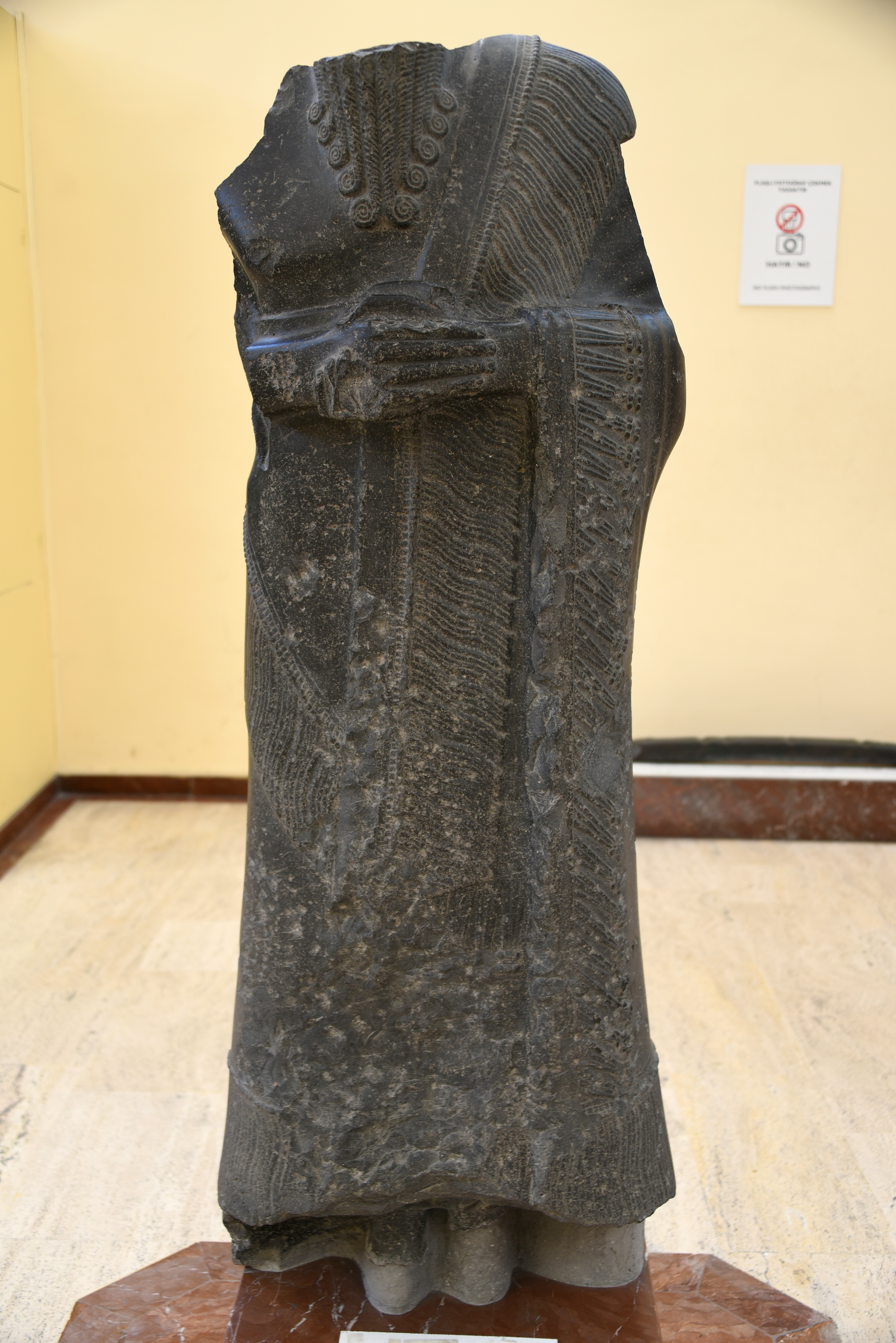 Diorite statue of governor of Tura Dagan (old Babylonian period, 1894-1594 BCE). Mari (modern-day Tell Hariri). Originally from Mari (in modern-day Syria), found in Babylon (in modern-day Iraq). The statue was brought from Mari to Babylon as war booty during the neo-Babylonian period and was found in the palace museum of Nebuchadnezzar II. Ancient Orient Museum, Istanbul.